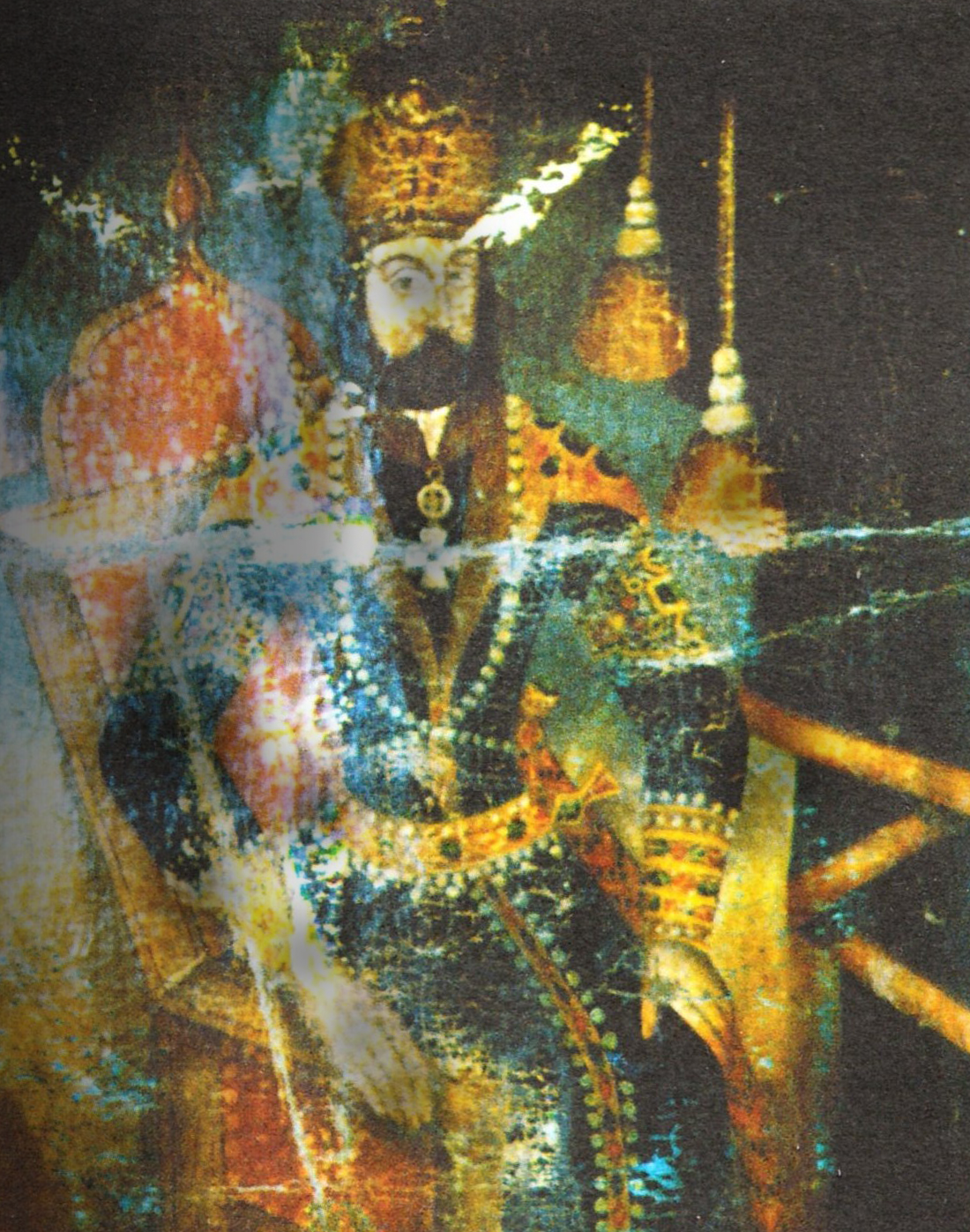 George XI, King of Kartli, Georgia.